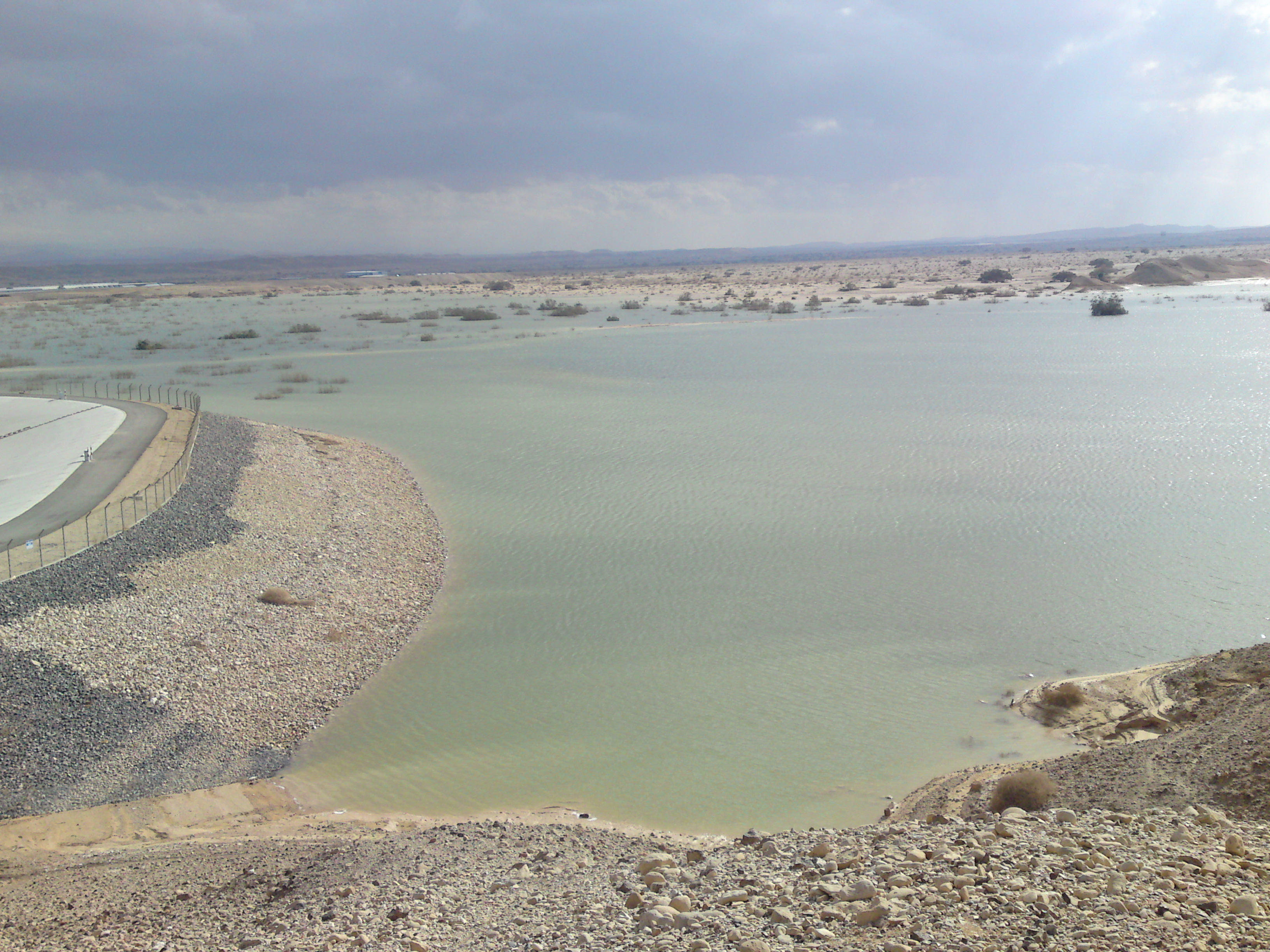 Ein-yahav, Geography of Israel